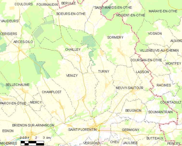 Map of French municipality Turny